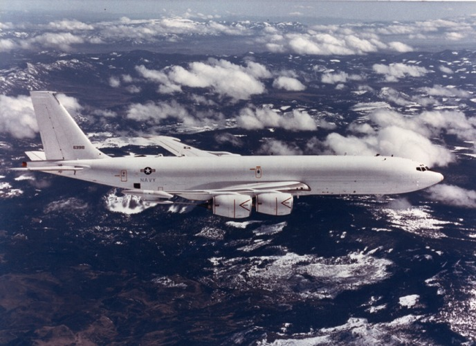 A U.S. Navy Boeing E-6A Mercury aircraft in flight.